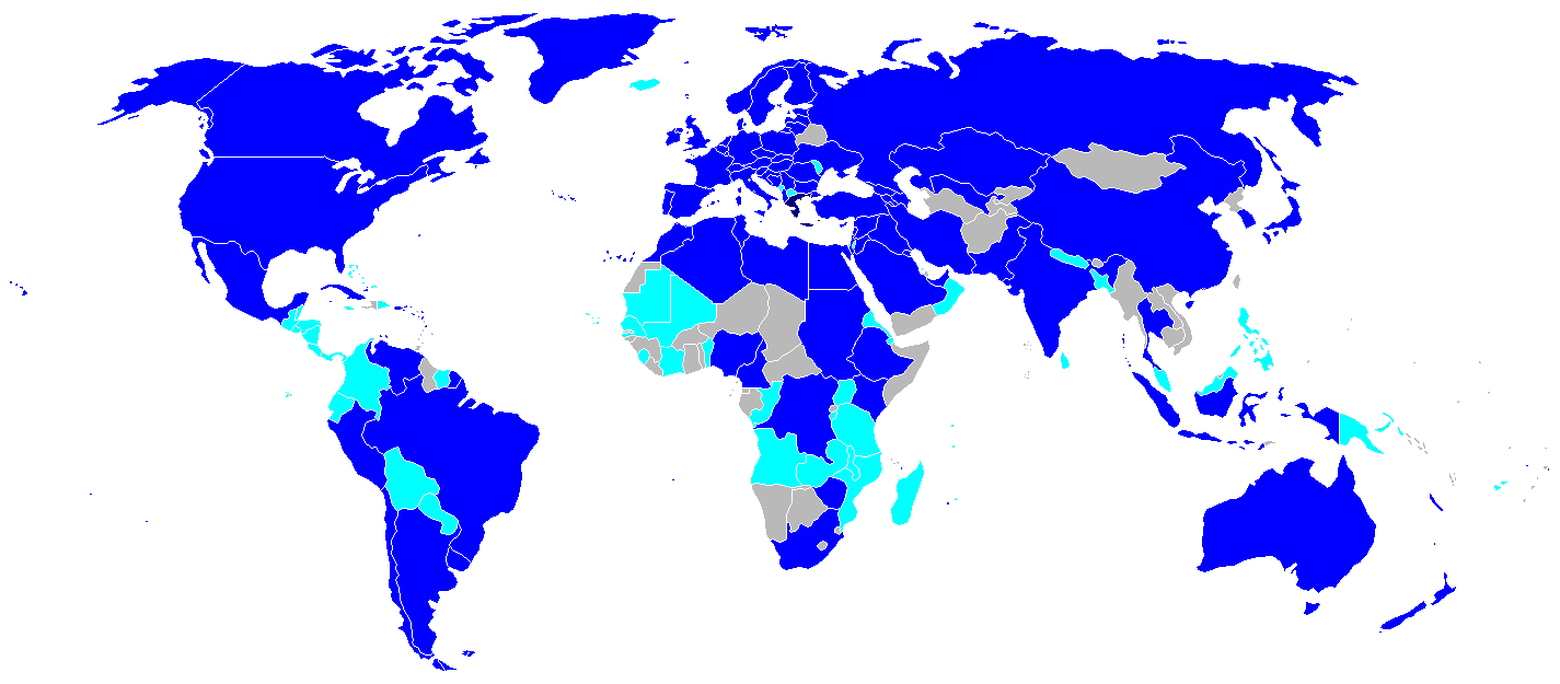 Diplomatic relations of Greece. Foreign relations in embassy and consulate level.